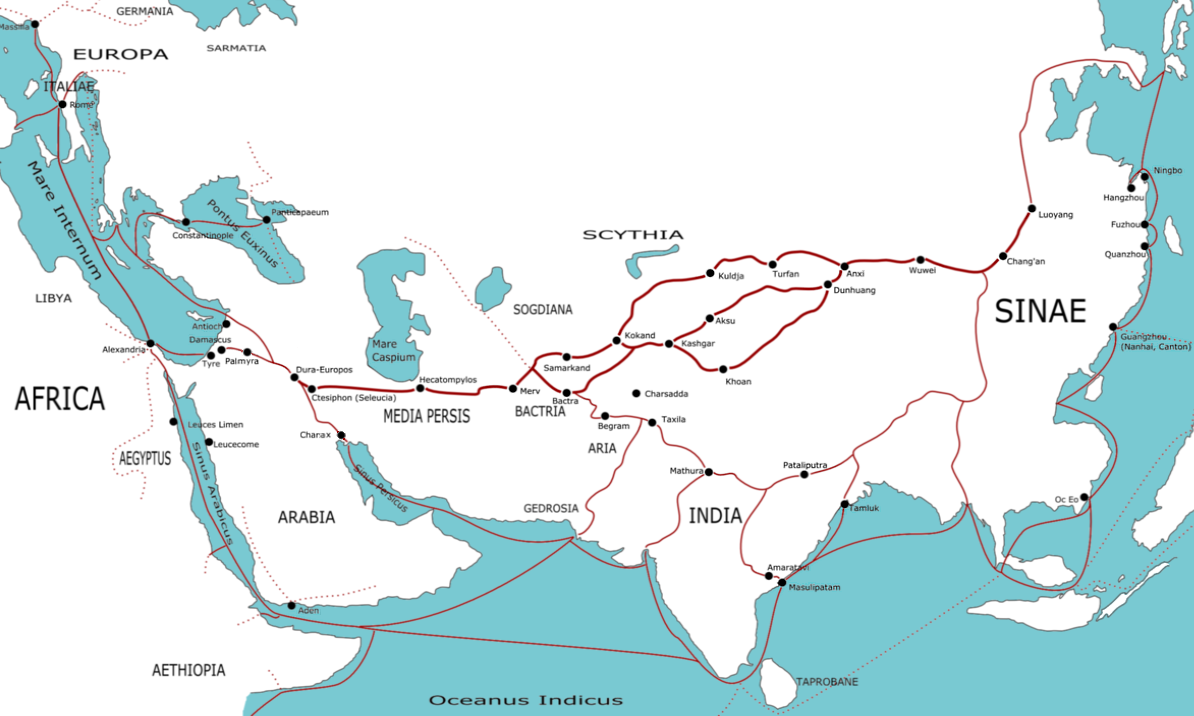 Silk road and Palmyra position